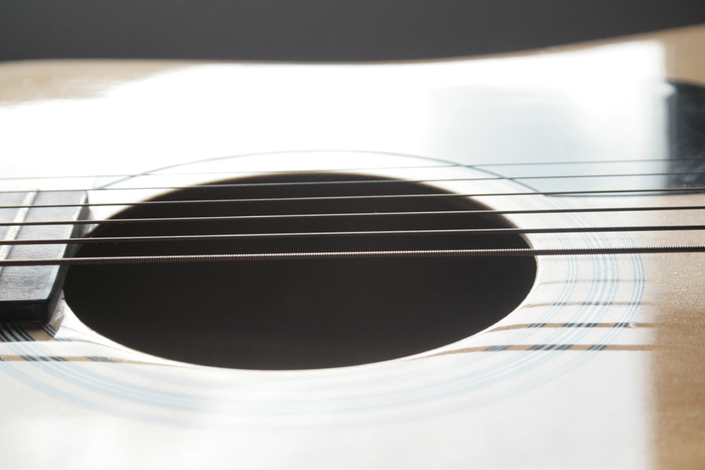 the acoustic guitar